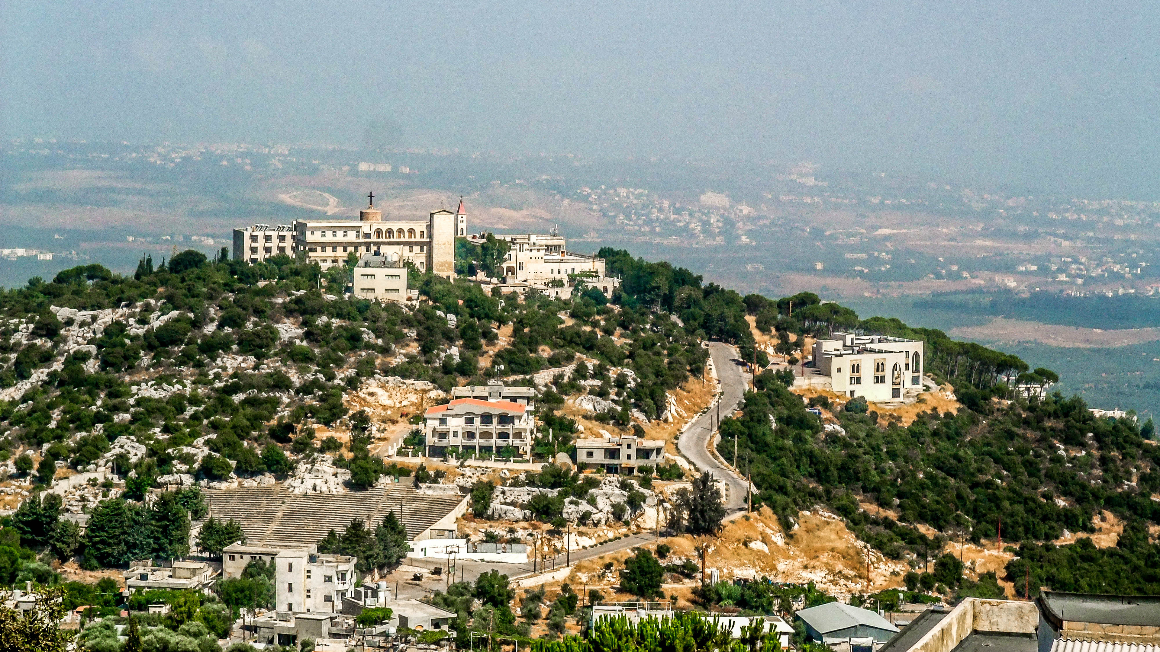 Photo Taken By Paul Saad